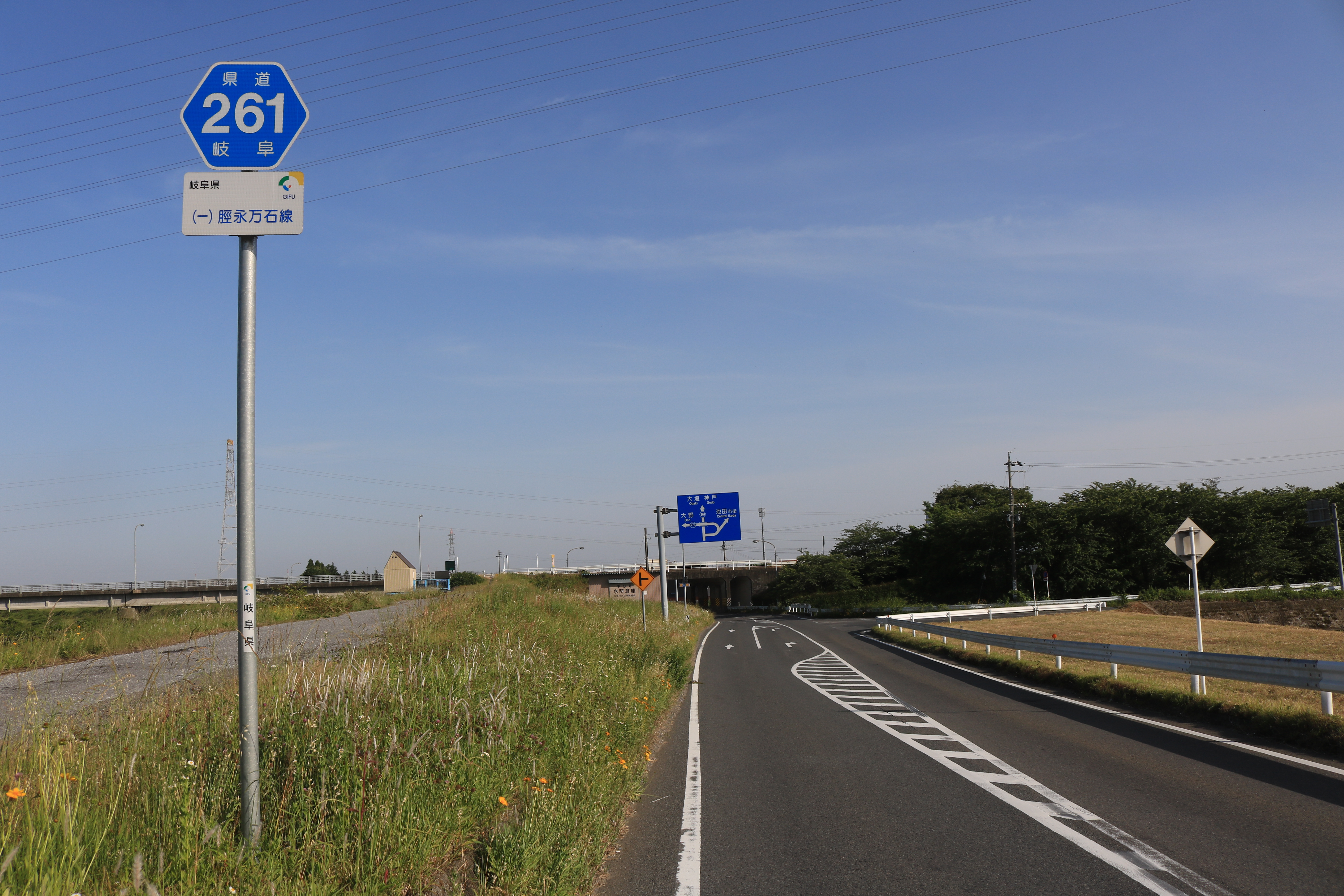 Gifu Prefectural Road Route 261 and Sancho Bridge over Ibi River in Ibigawa, Gifu Prefecture, Japan.